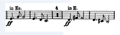 This is an excerpt of the trumpet part of Dvorak 9 (New World), which shows that the trumpet has to transpose between E flat and E (mutare).